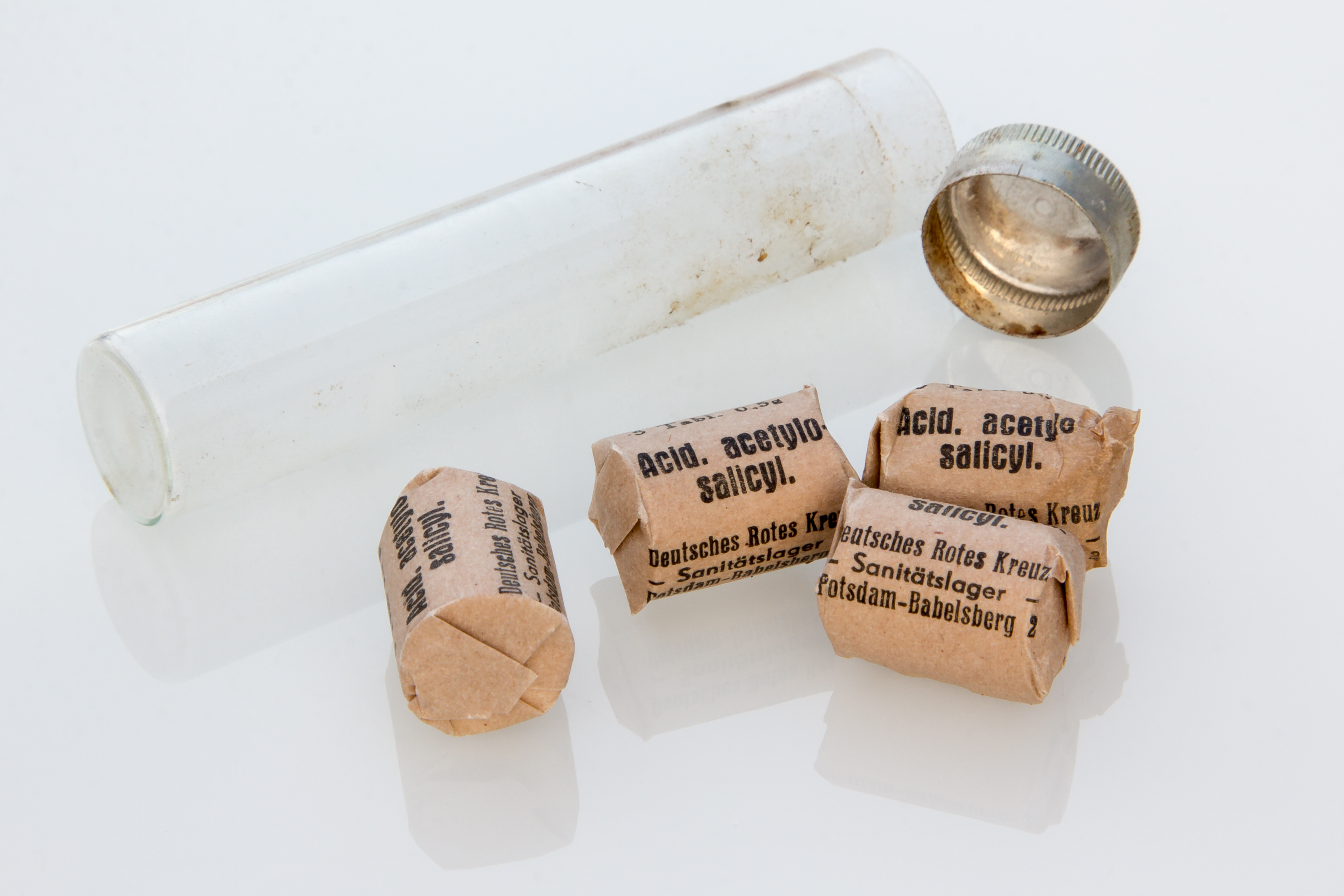 Acetylsalicylic acid from a Red Cross helper pocket of the 1930s